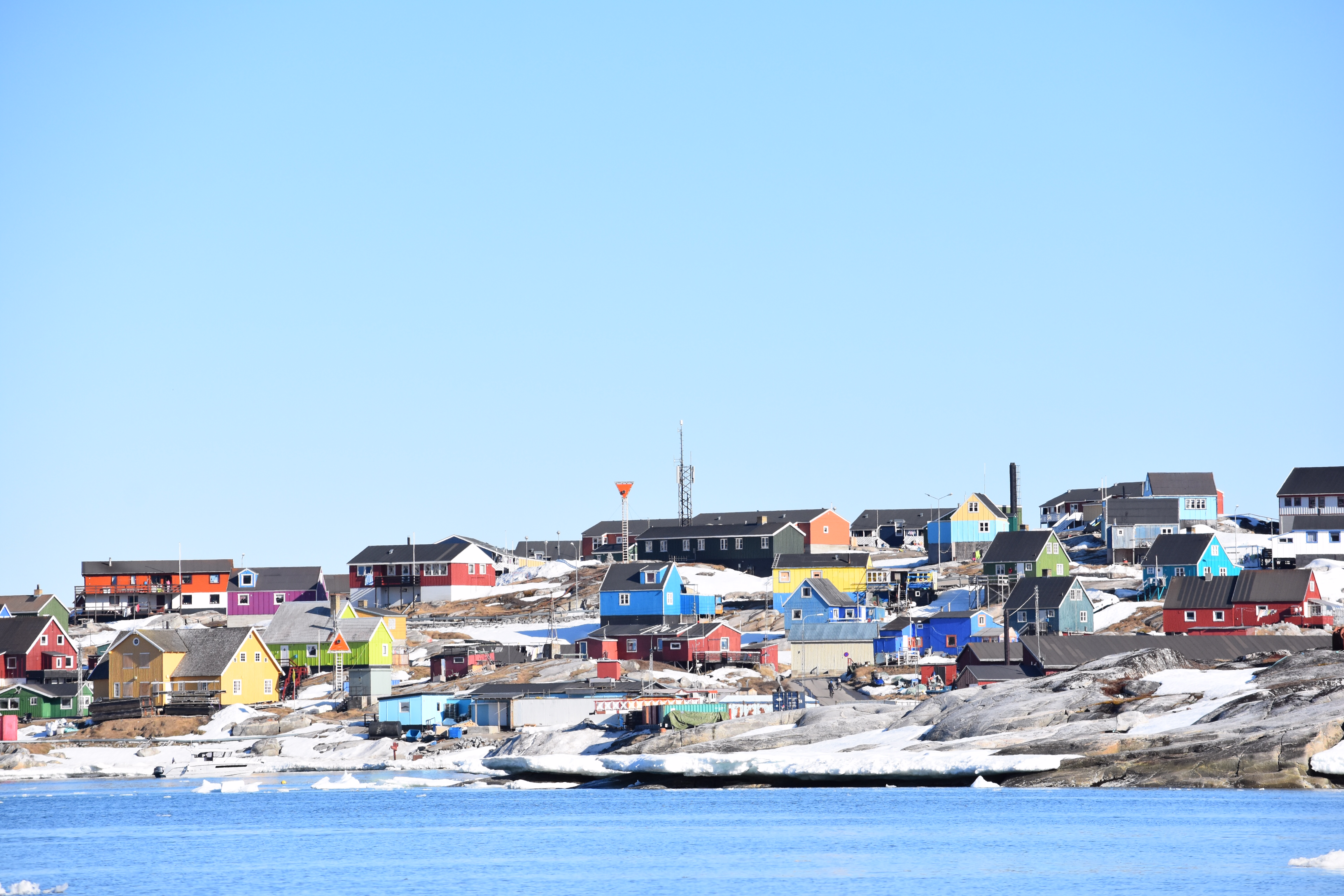 Qeqertarsuaq village taken from the anchorage.